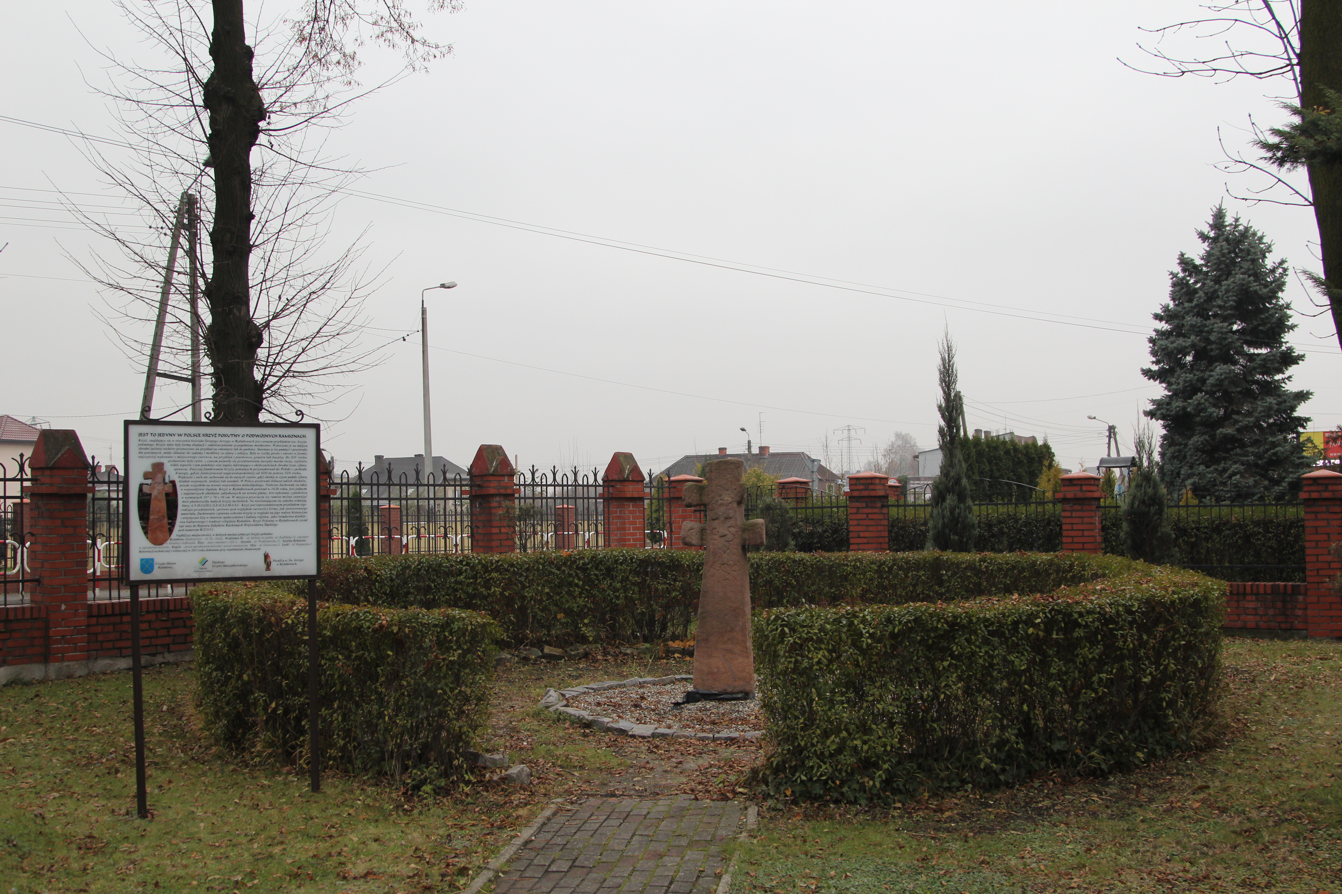 Stone cross in Rydułtowy.